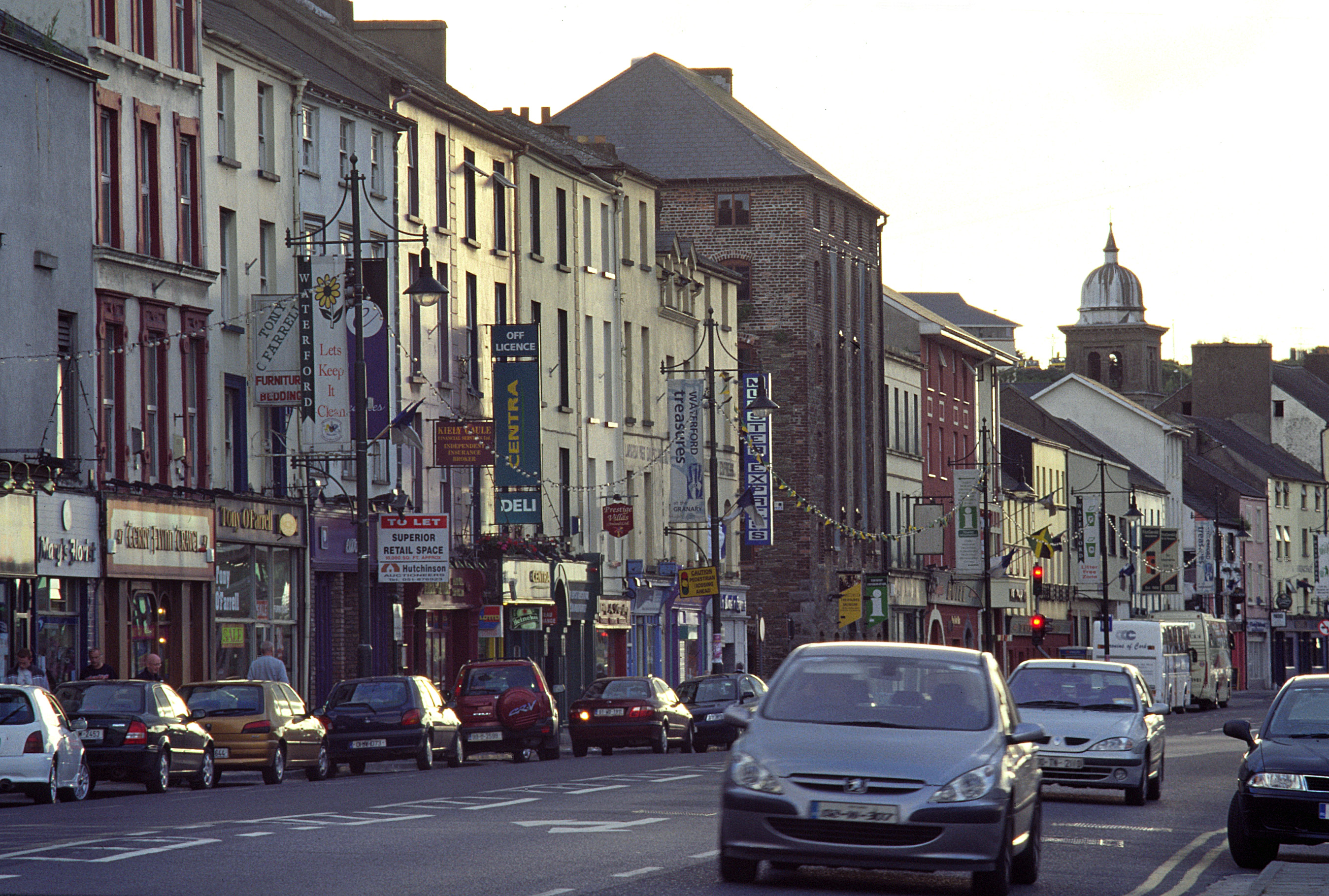 Street view of Waterford, County Waterford, Ireland, June 2003.